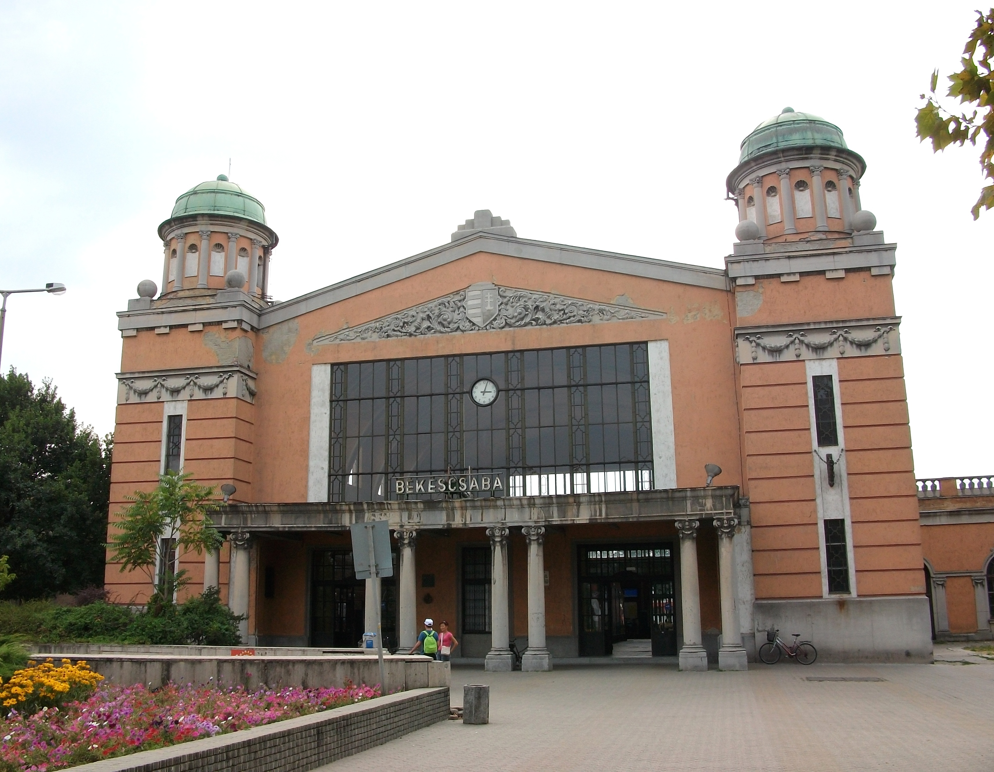 Railway station, Békéscsaba, Hungary